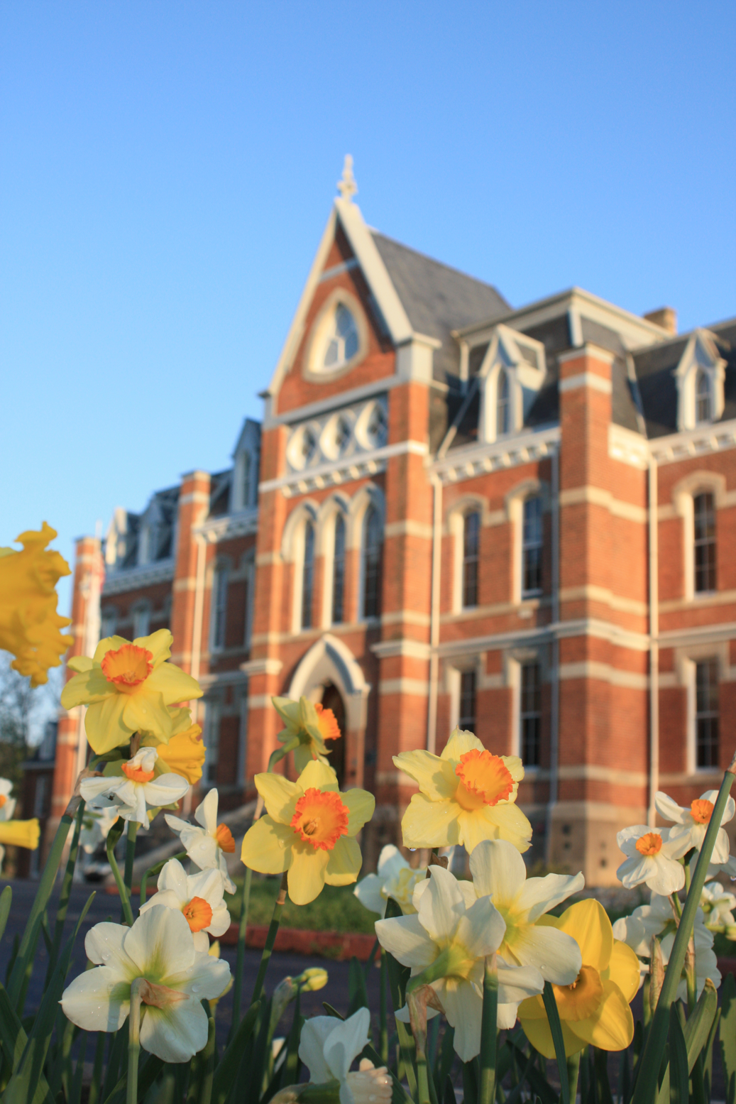 Old Main building in the spring, Miller School of Albemarle, Charlottesville, Virginia